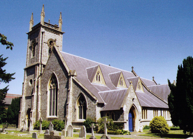 St Peter, Earley Grade 2 listed building erected in 1844.